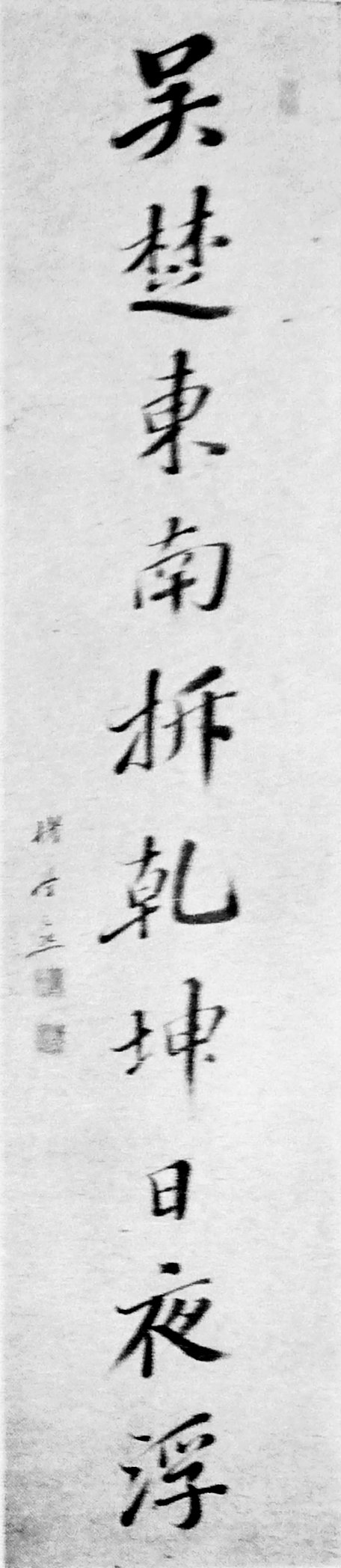 Calligraphy of Murase Koutei(1774-1819)